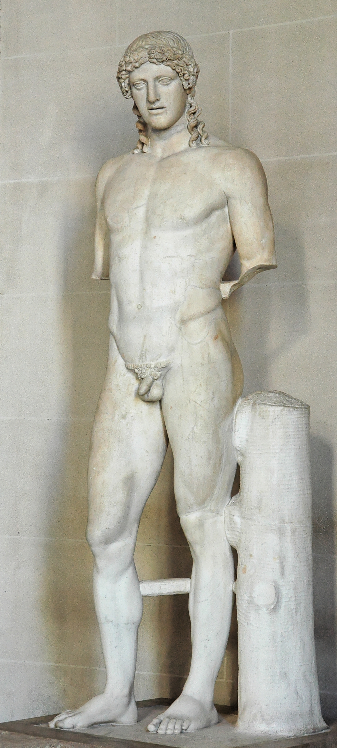 Apollo, Roman copy of the Kassel type (original ca. 450 BC). Pentelic marble, early 2nd century AD (?), found in Italy.